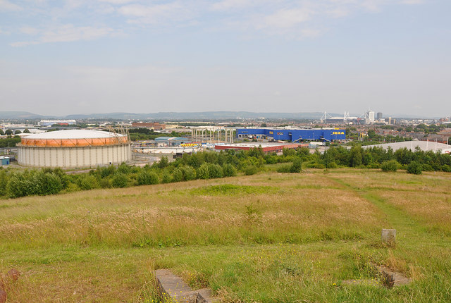 View across Penarth Moors toward Cardiff The view, taken from the viewpoint on the moors, includes part of the surrounding industrial estate with Ikea ensuring its presence is known, Grangetown and, far right, the Millennium Stadium.